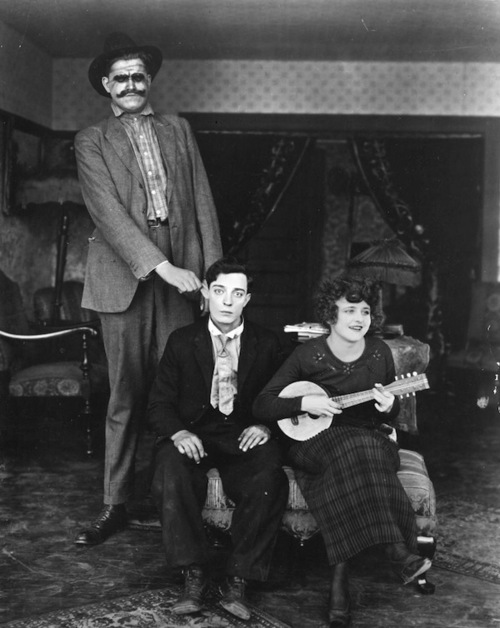 Still with Ingram B. Pickett (1899 – 1963), Buster Keaton, and Bartine Burkett in the American film The High Sign (1921).